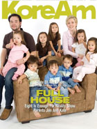 Magazine cover of KoreAm from May 2008 featuring Jon and Kate Gosselin, with their children.